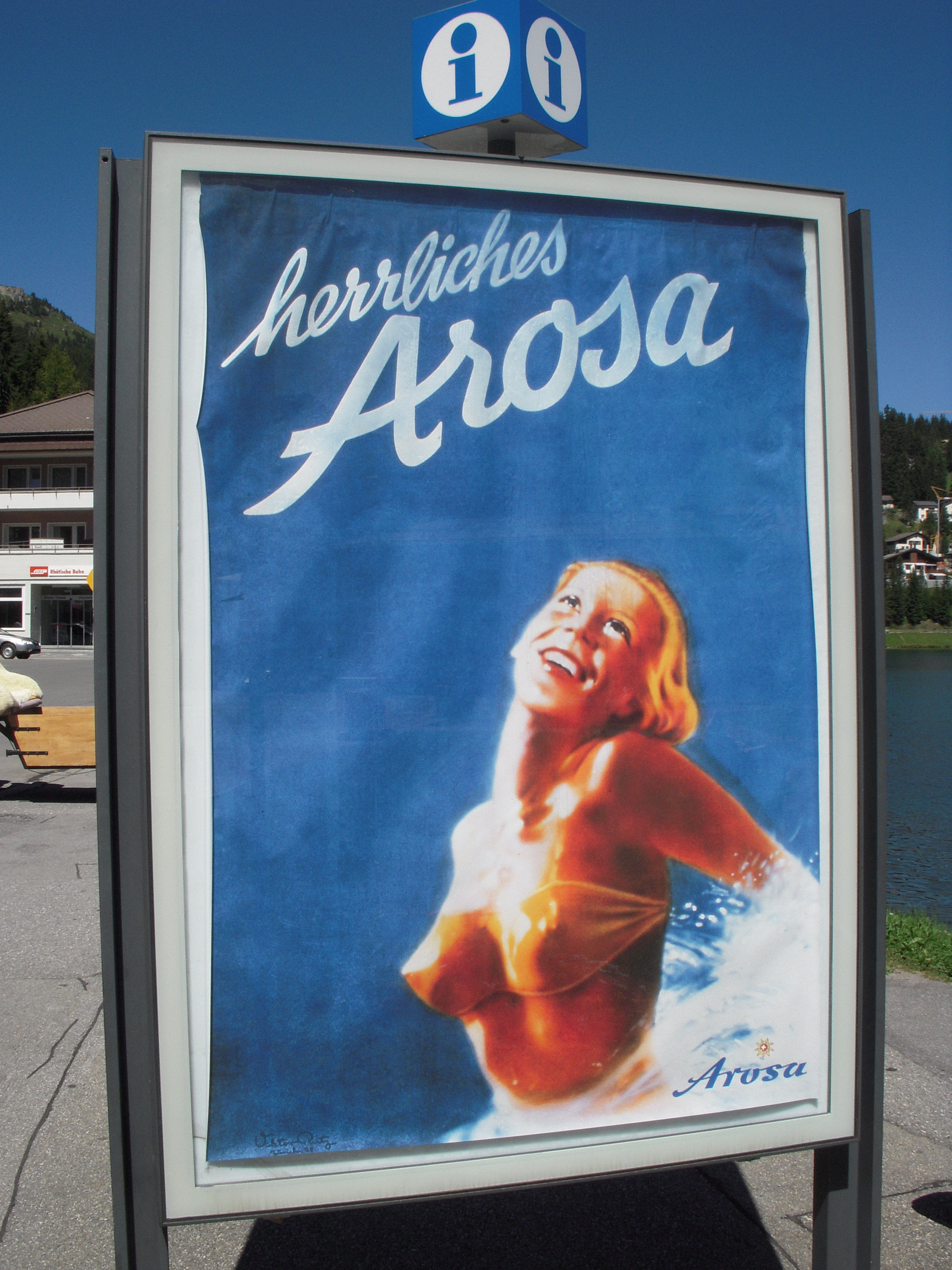 Sign in front of the tourist office in Arosa, Graubünden, Switzerland. August 17, 2012.